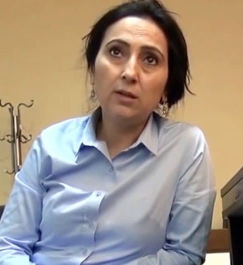 Turkish politician Figen Yüksekdağ